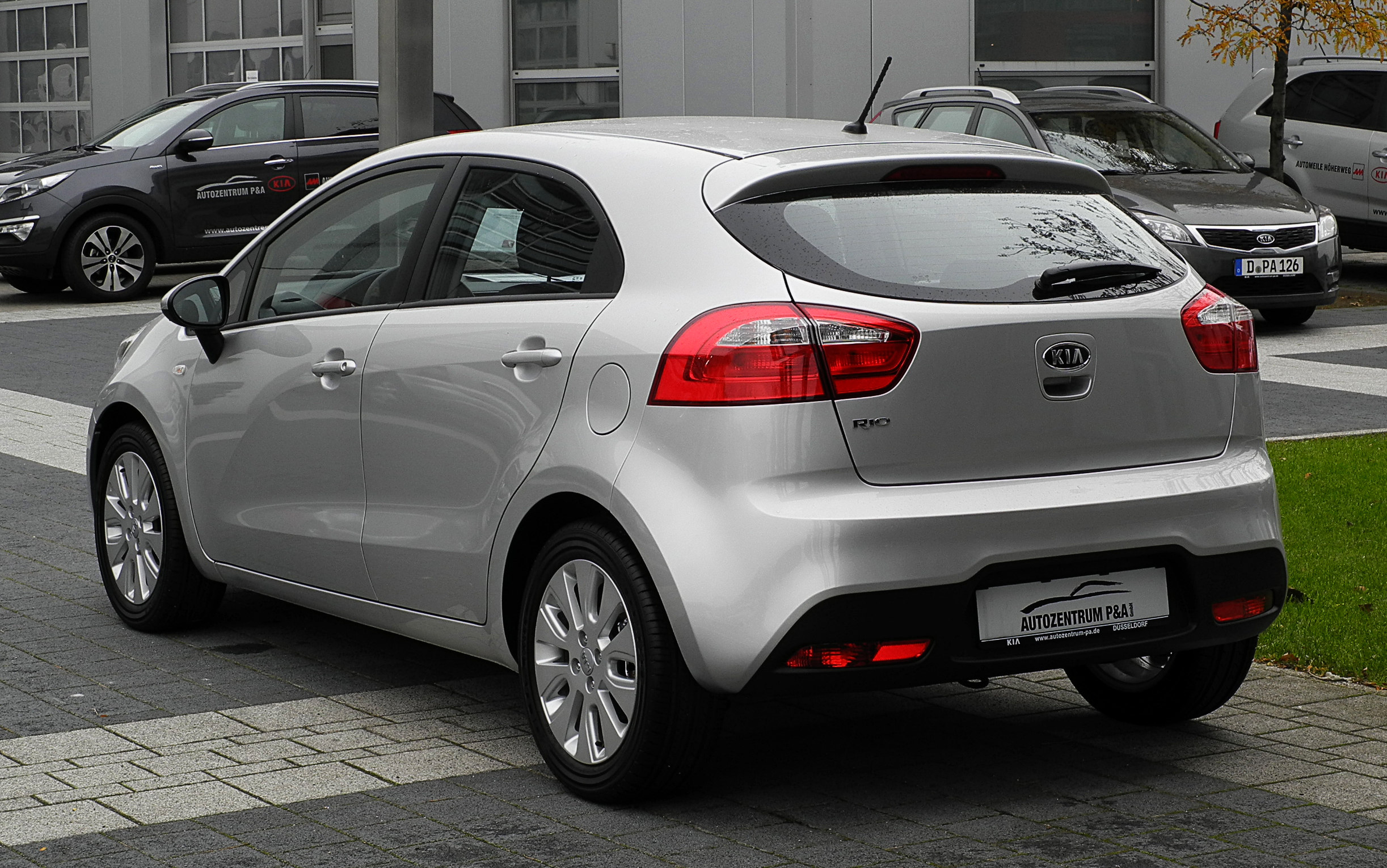 Kia Rio 1.4 CVVT Edition 7 (UB)